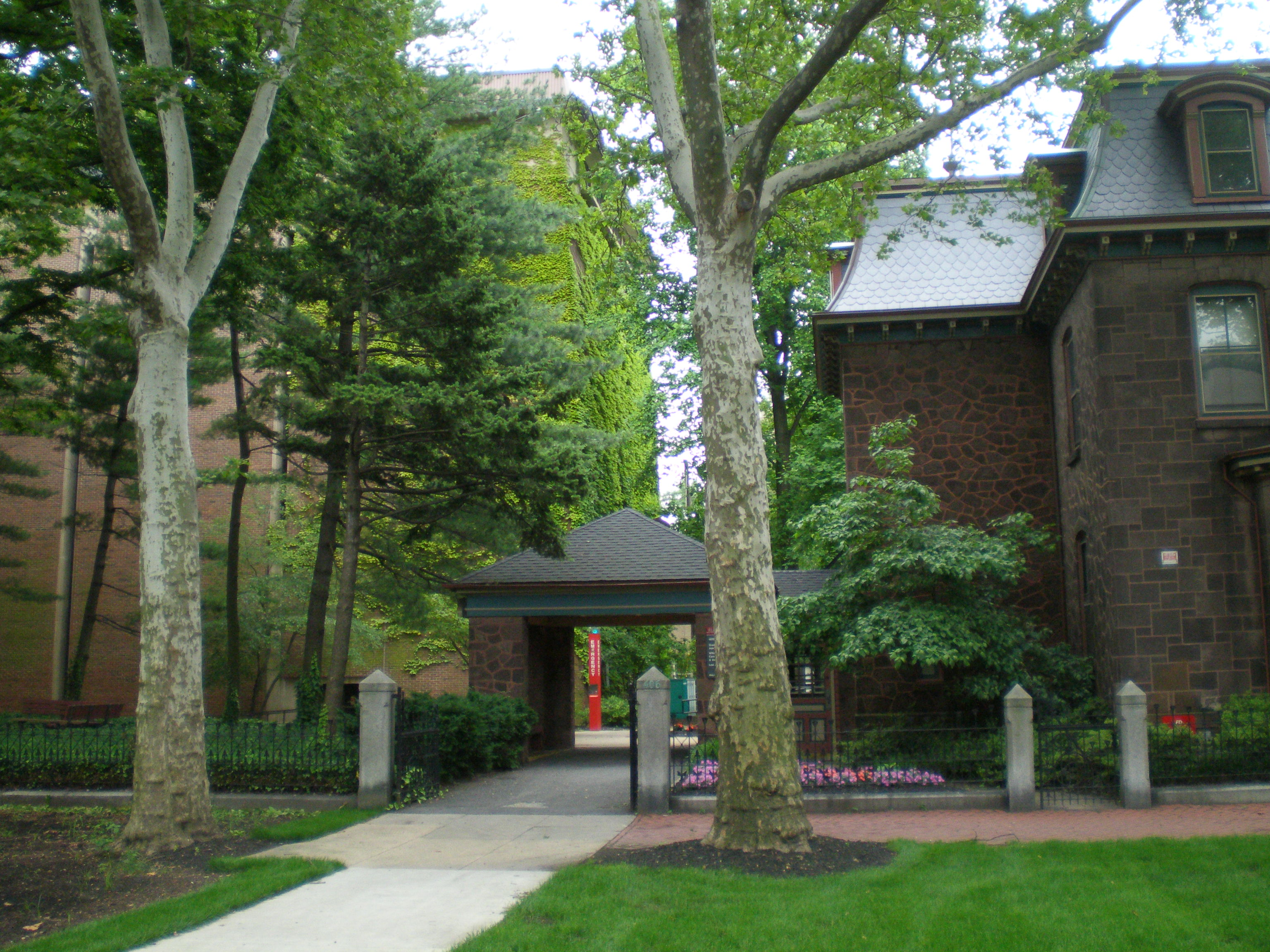 Admissions building in the rear courtyard at Rutgers Law School in Camden, New Jersey.